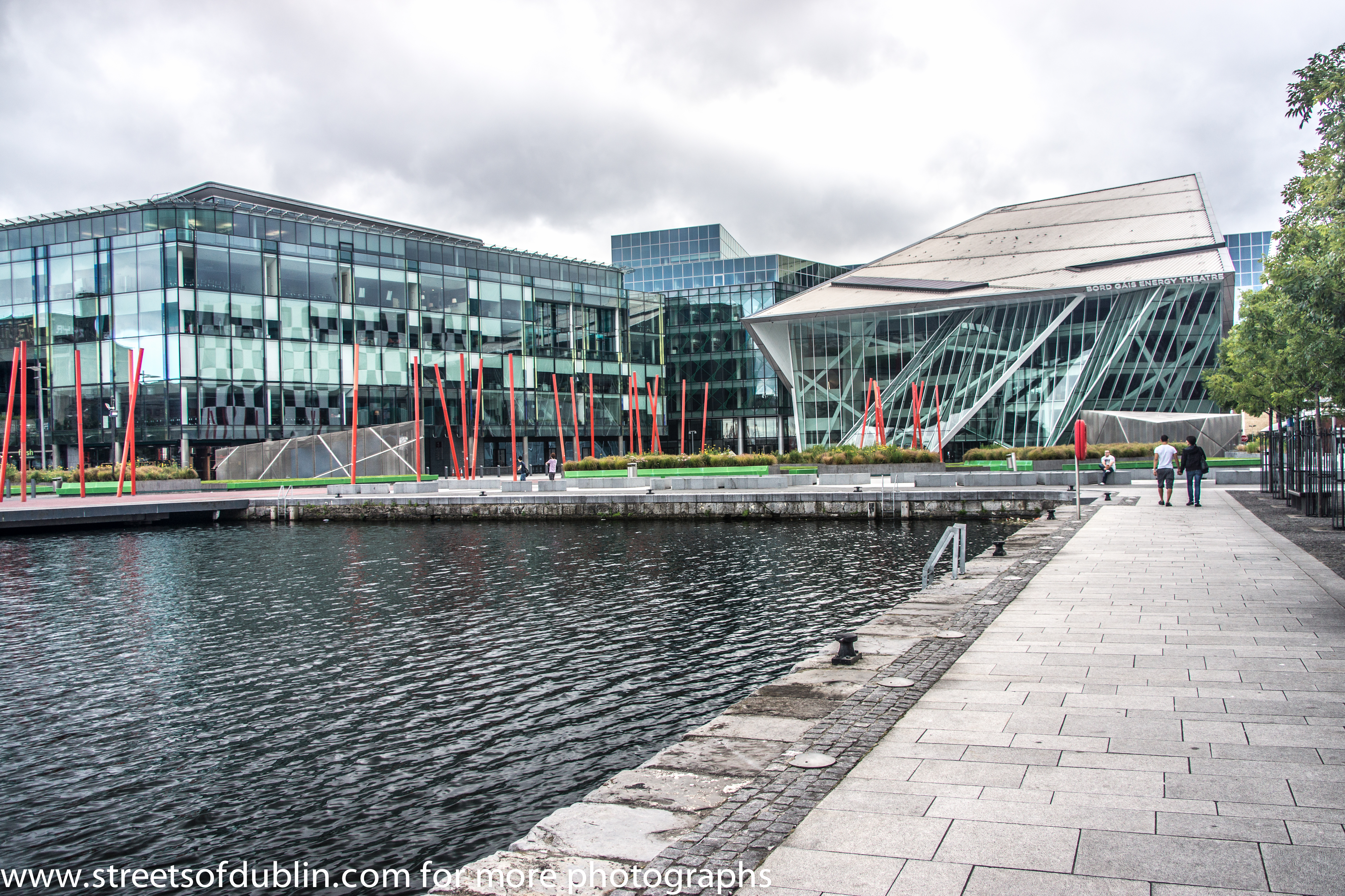 Grand Canal Square - Dublin Docklands